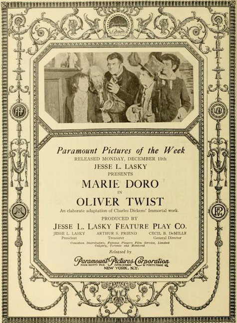 Advertisement in Moving Picture World